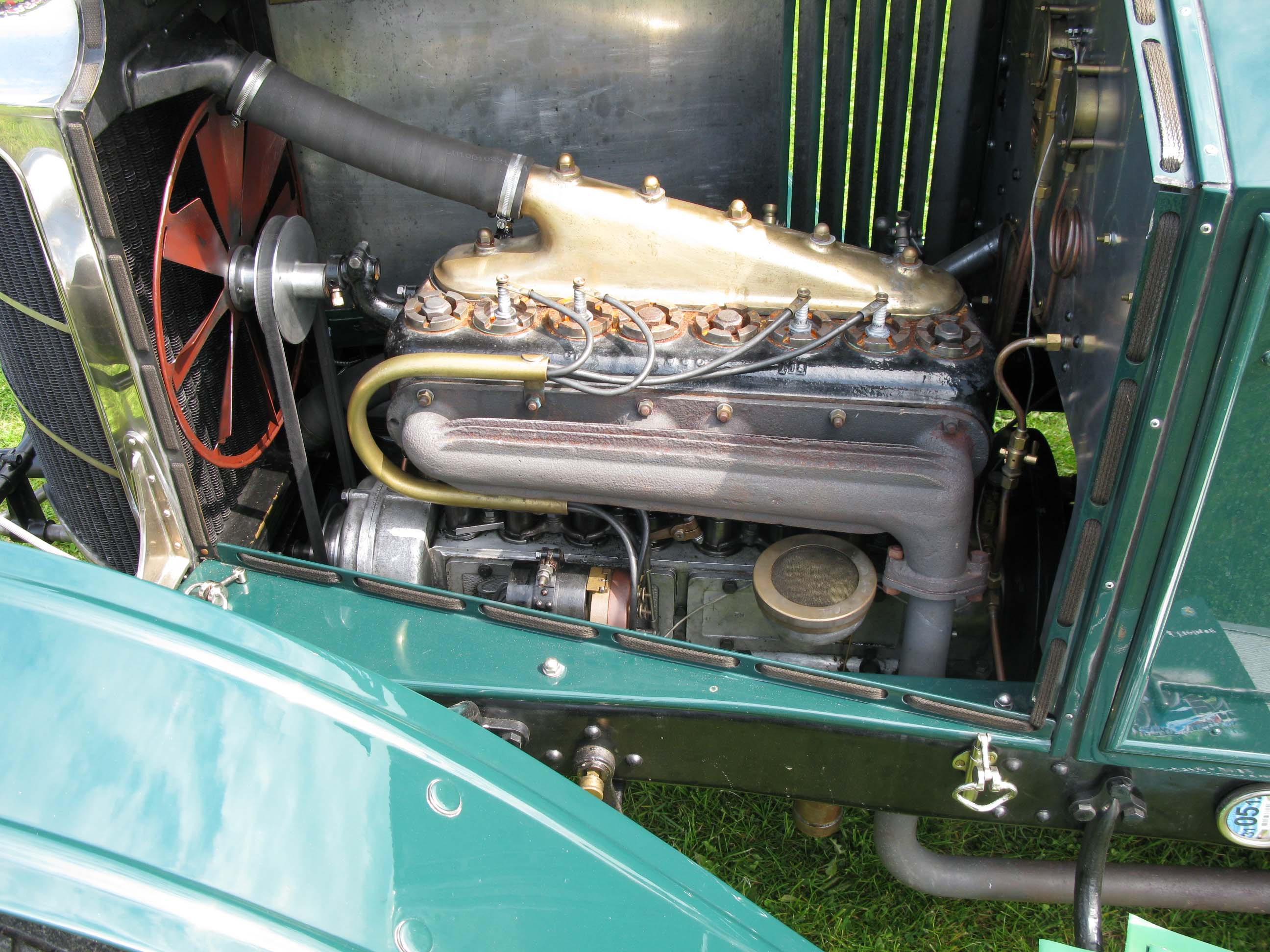 1912 Vauxhall Prince Henry four cylinder side valve engine.Event: Tjolöholm Classic Motor 2012.